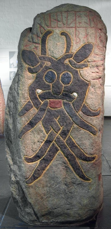 Maskestenen på Moesgård museum